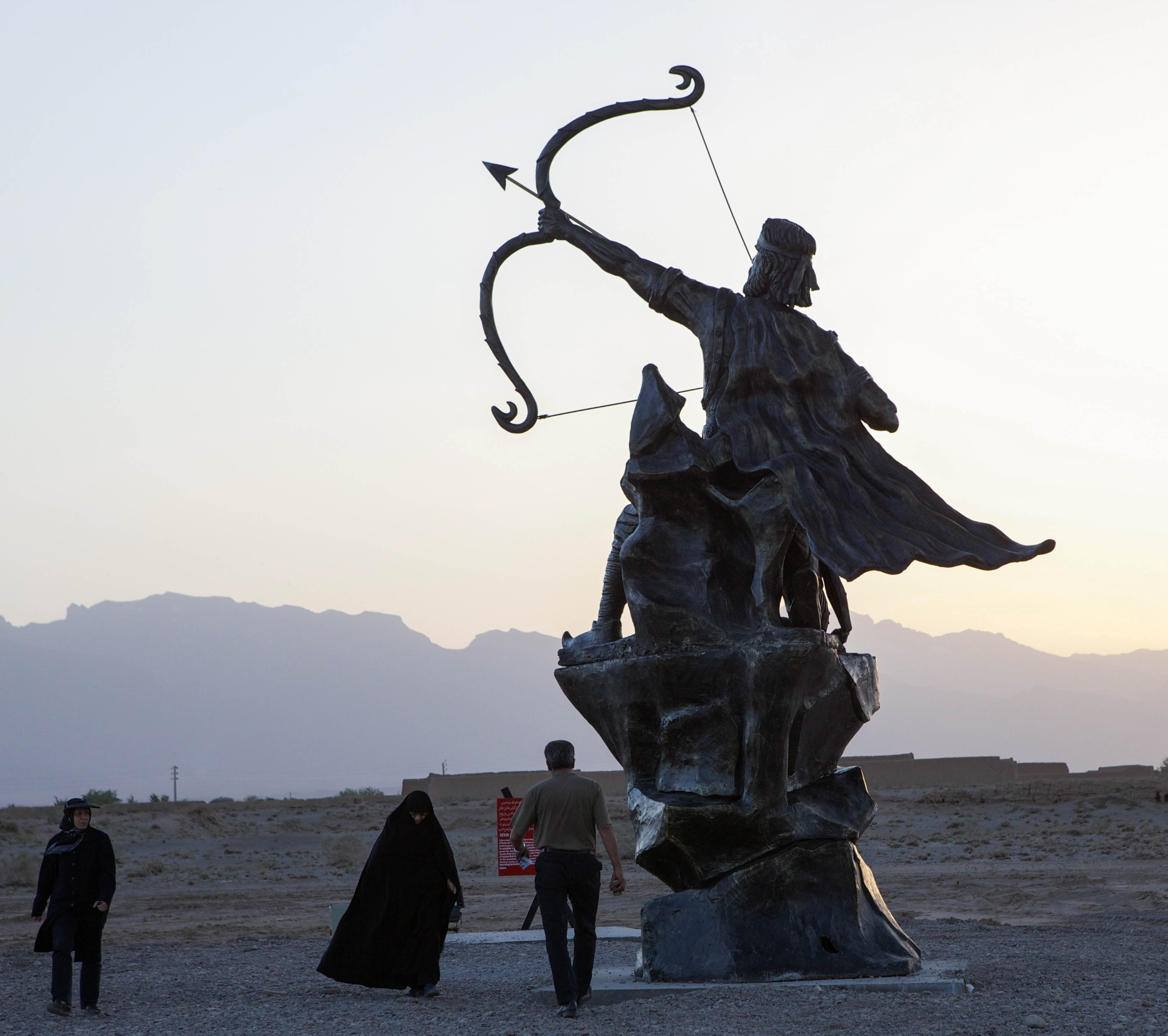 Arash the Archer, Saryazd, Yazd Province, Iran